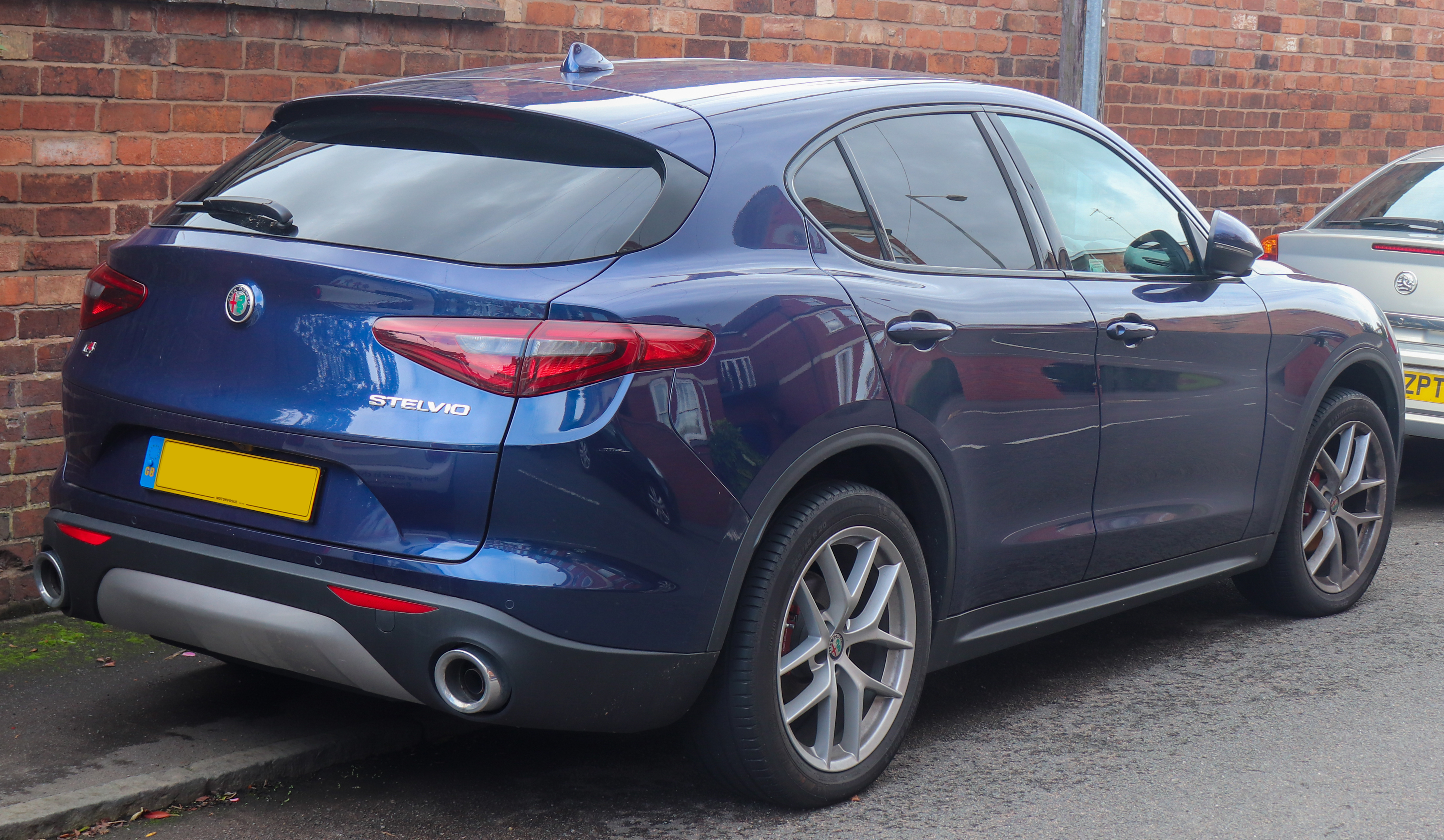 2018 Alfa Romeo Stelvio Super TD AWD Automatic 2.1 Rear Taken in Leamington Spa